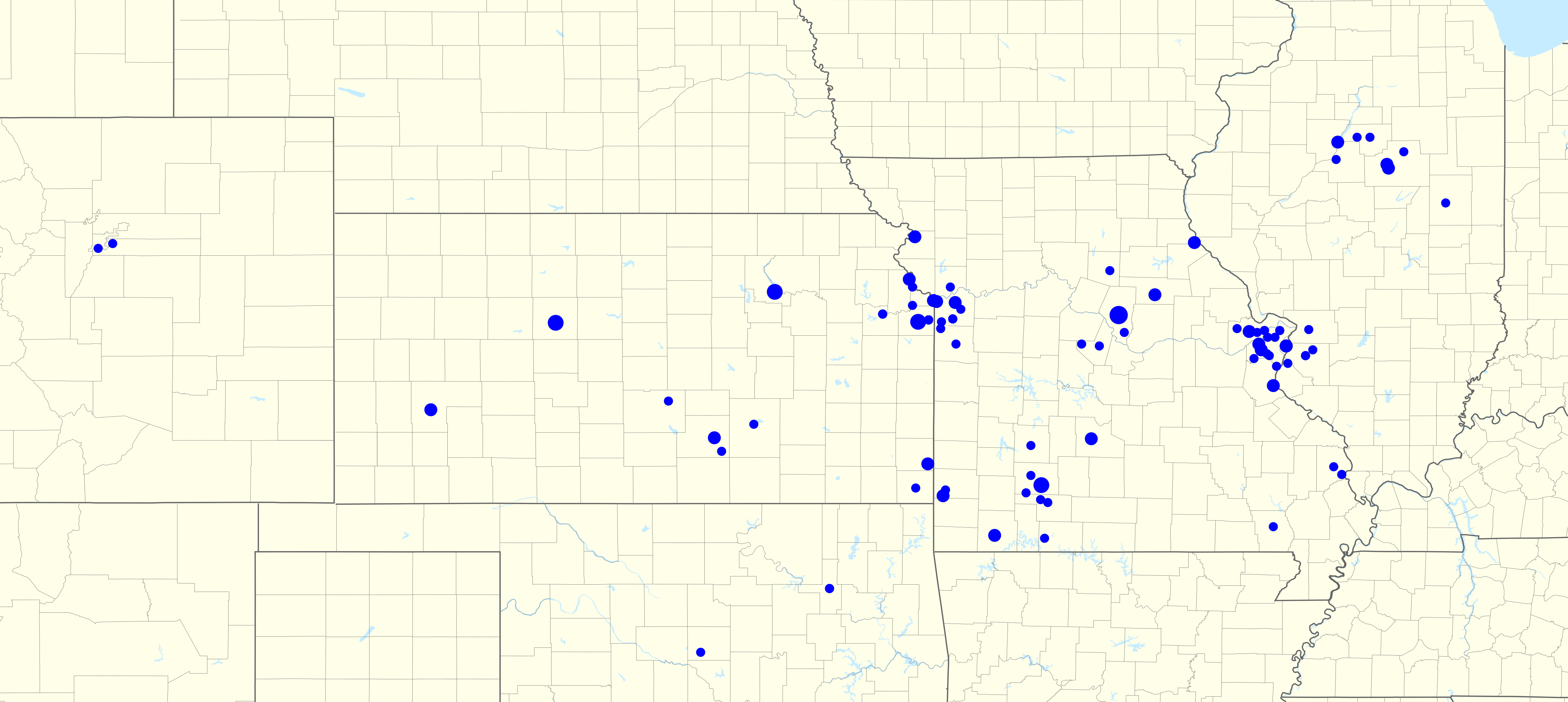 Footprint of Commerce Bank branches within the United States. Zip codes with more than one branch have progressively larger points.